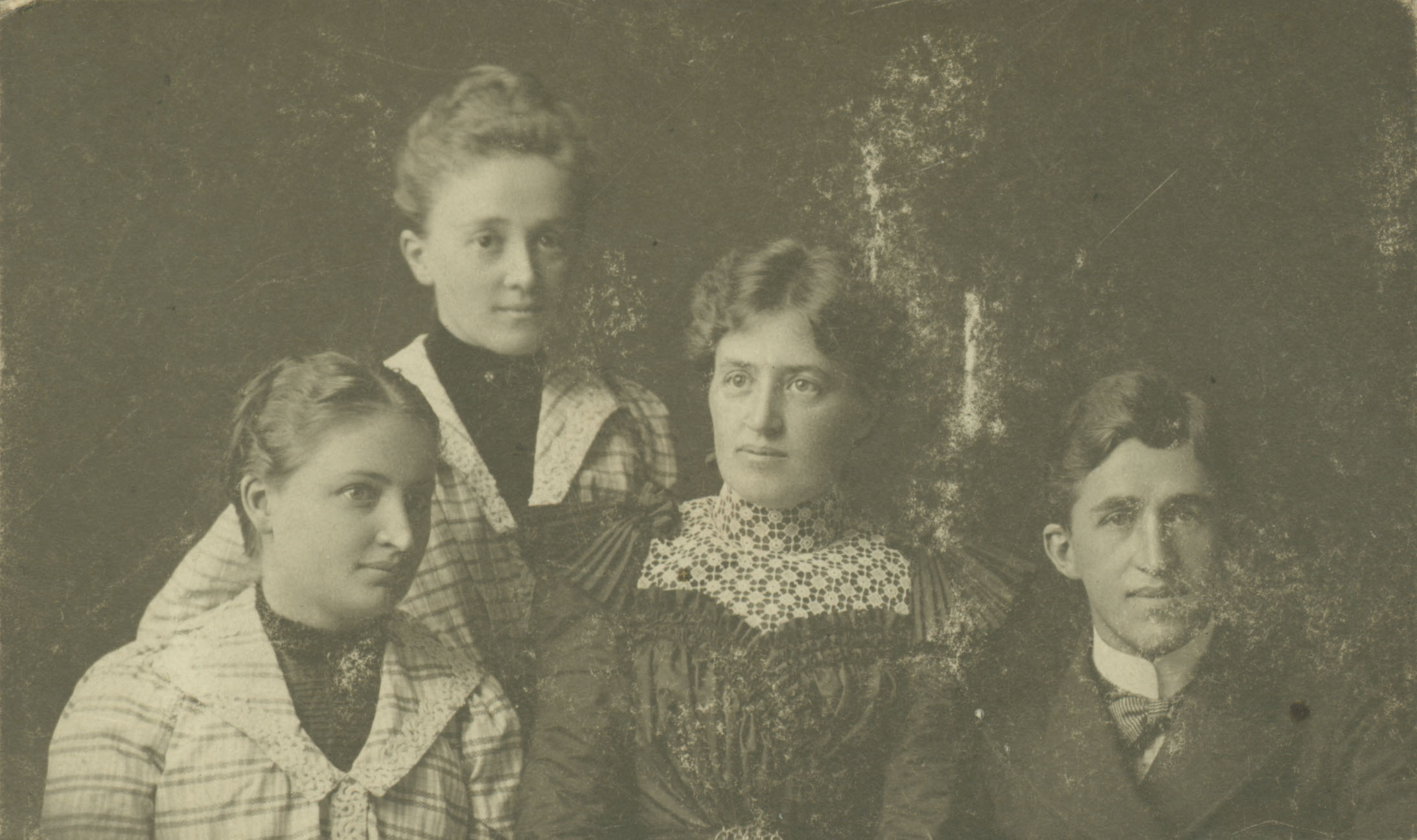 From left to right: Mia Olsson, Lydia Olsson, Anna Olsson, Hannes Olsson. From the Olof Olsson Family Papers, Augustana Special Collections.